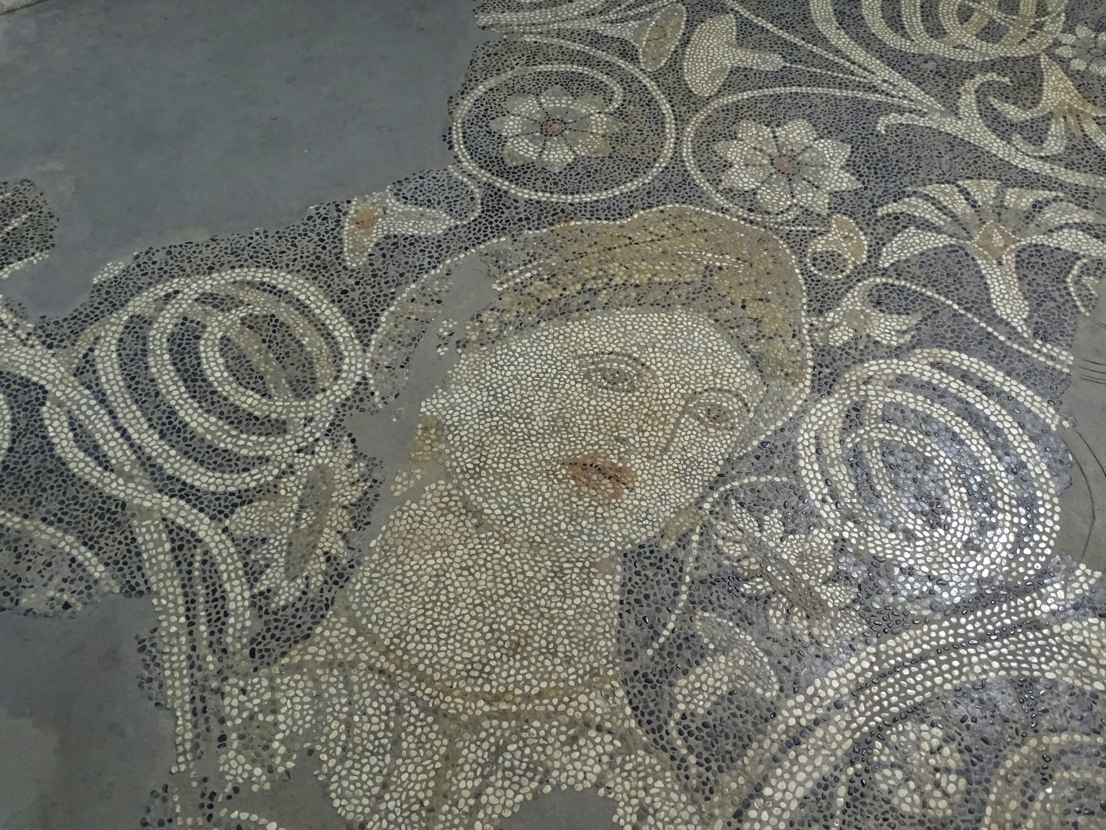 Photos by Adam Jones